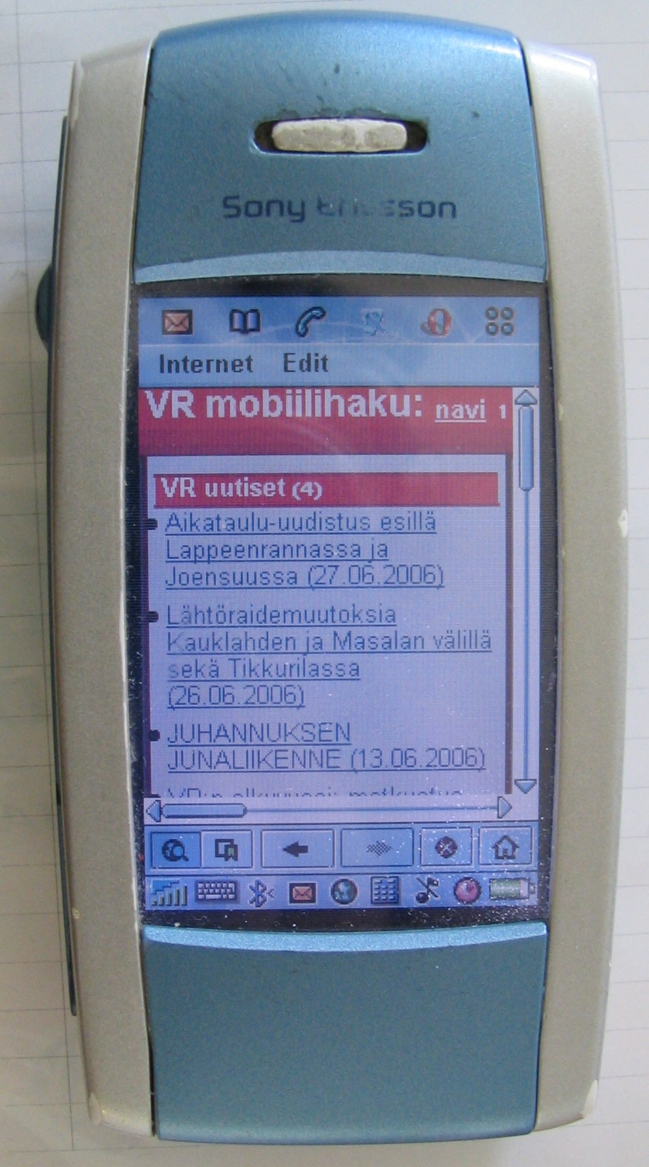 Sony Ericsson P800 with web browser doing finnish state railway timetable search.